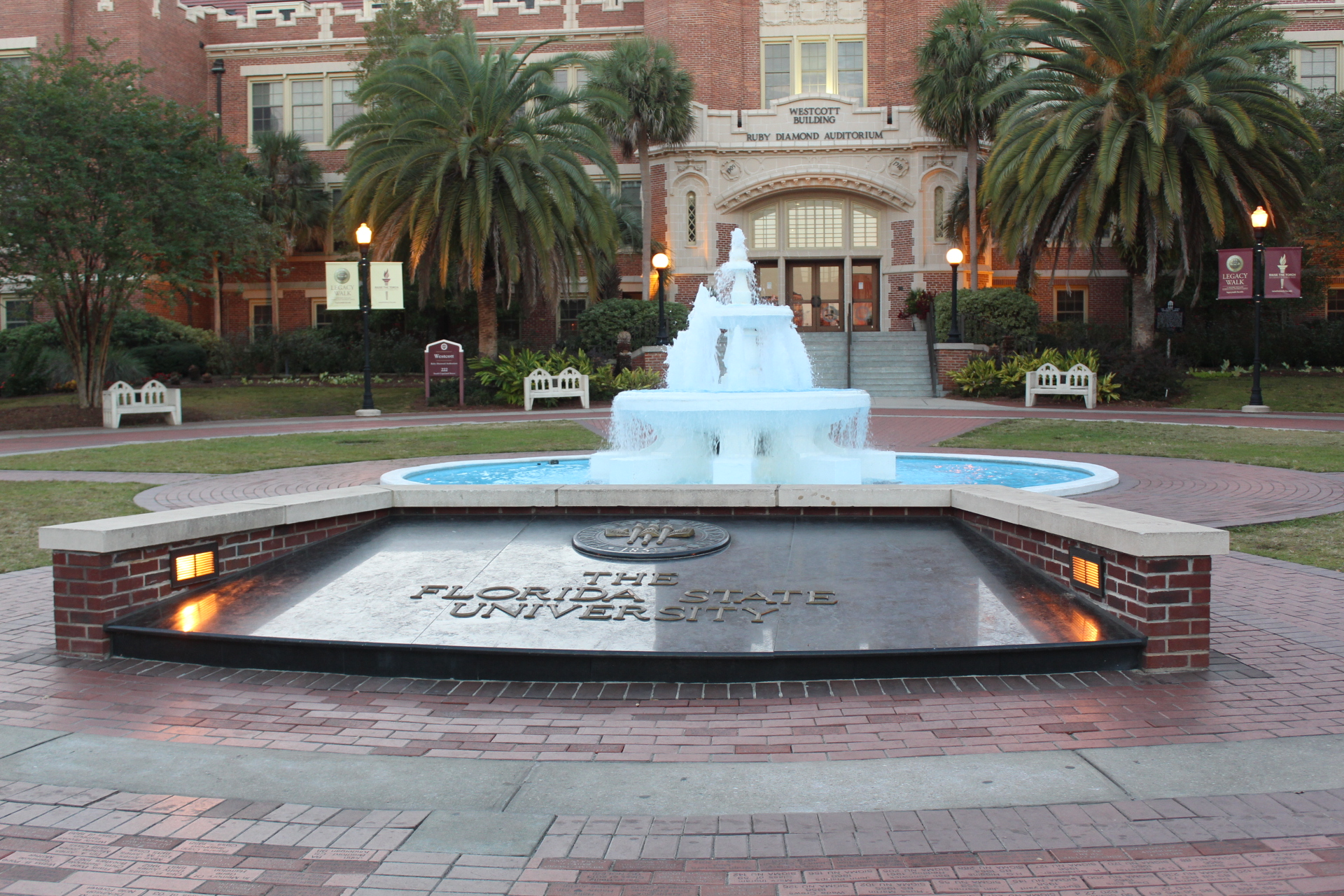 A well known fountain on Florida State University's Tallahassee campus.